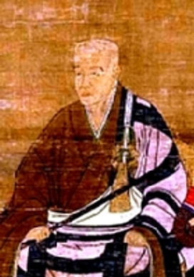 Eisai, founder of the Rinzai School of Zen, 12th century. 13:02, 29 January 2005 PHG 281x398 (90634 bytes)